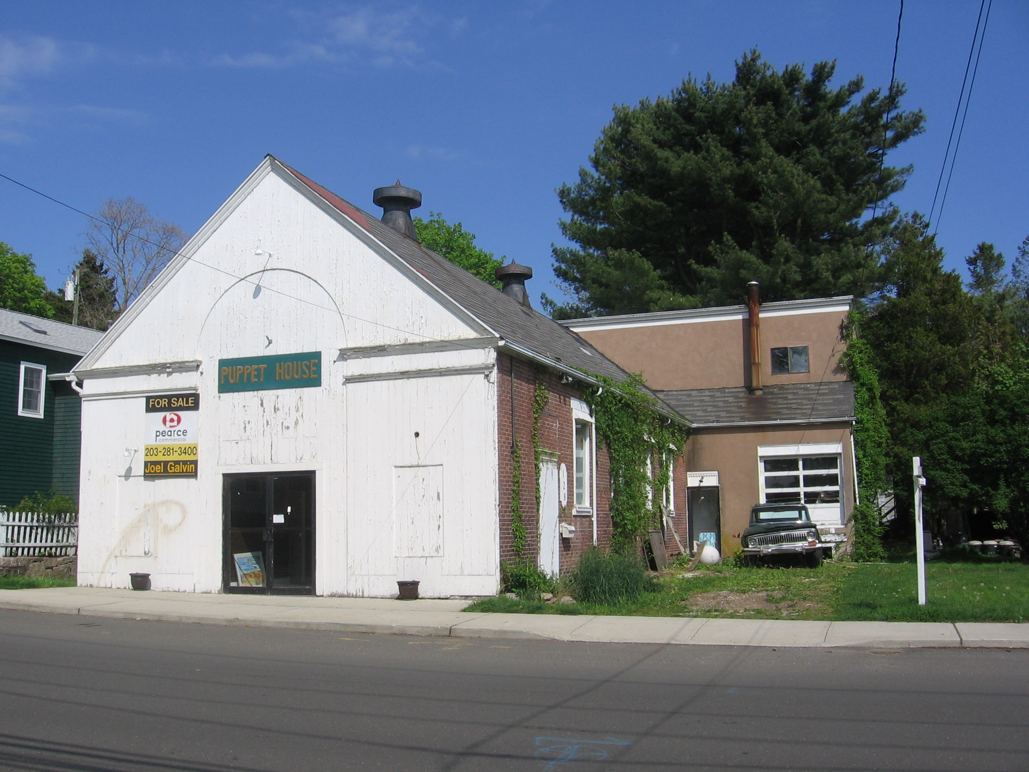 The former home of the Stony Creek Puppet House in the Stony Creek section of Branford, Connecticut.